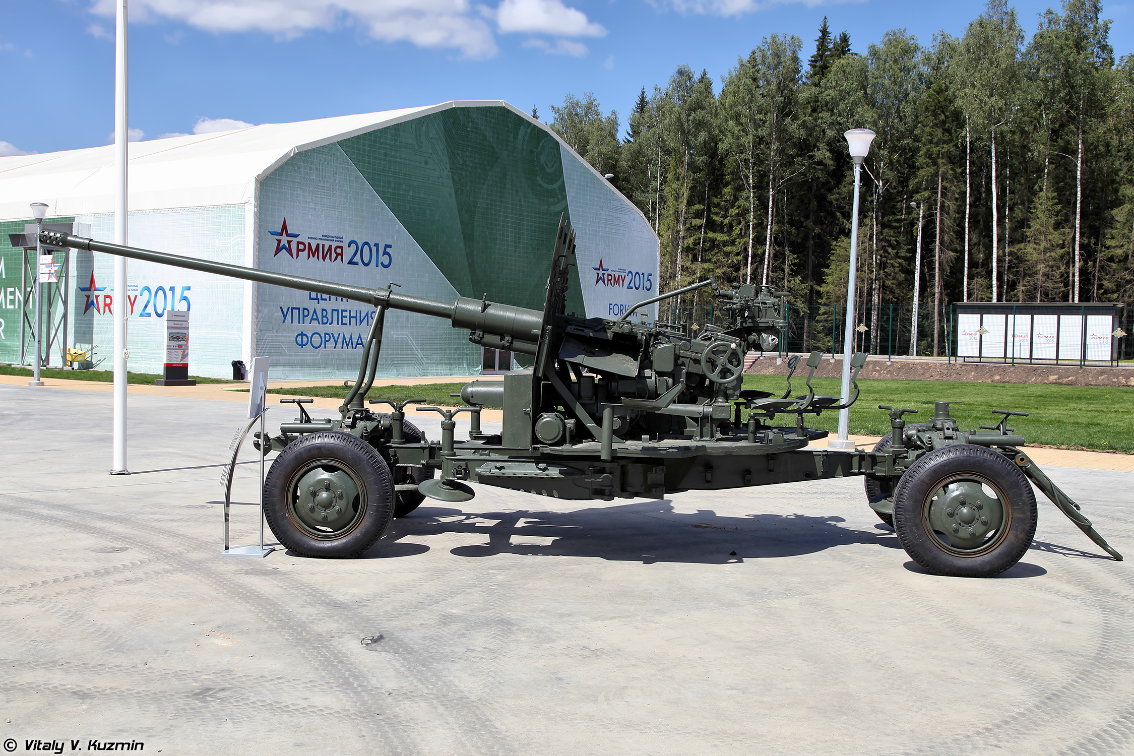 57mm anti-aircraft gun S-60